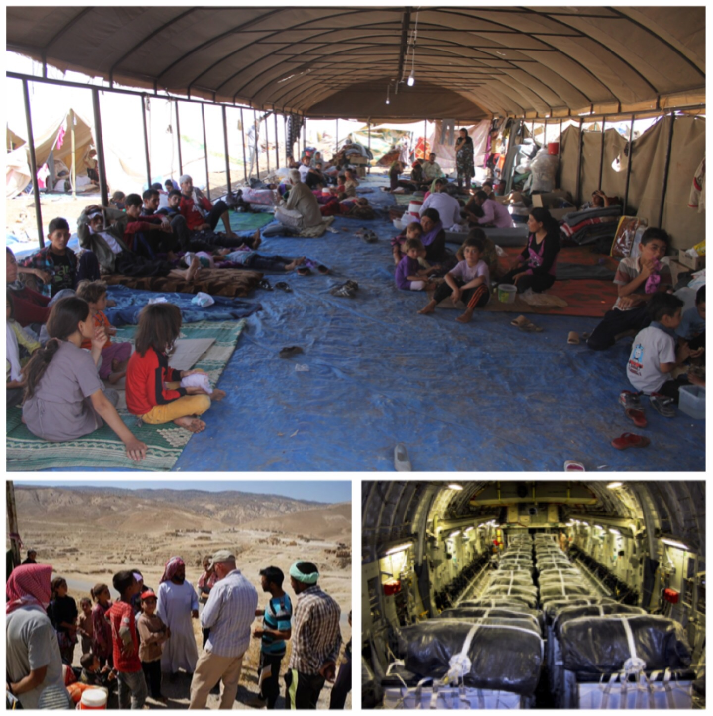 Collage involving the Persecution of Yazidis by the Islamic State.